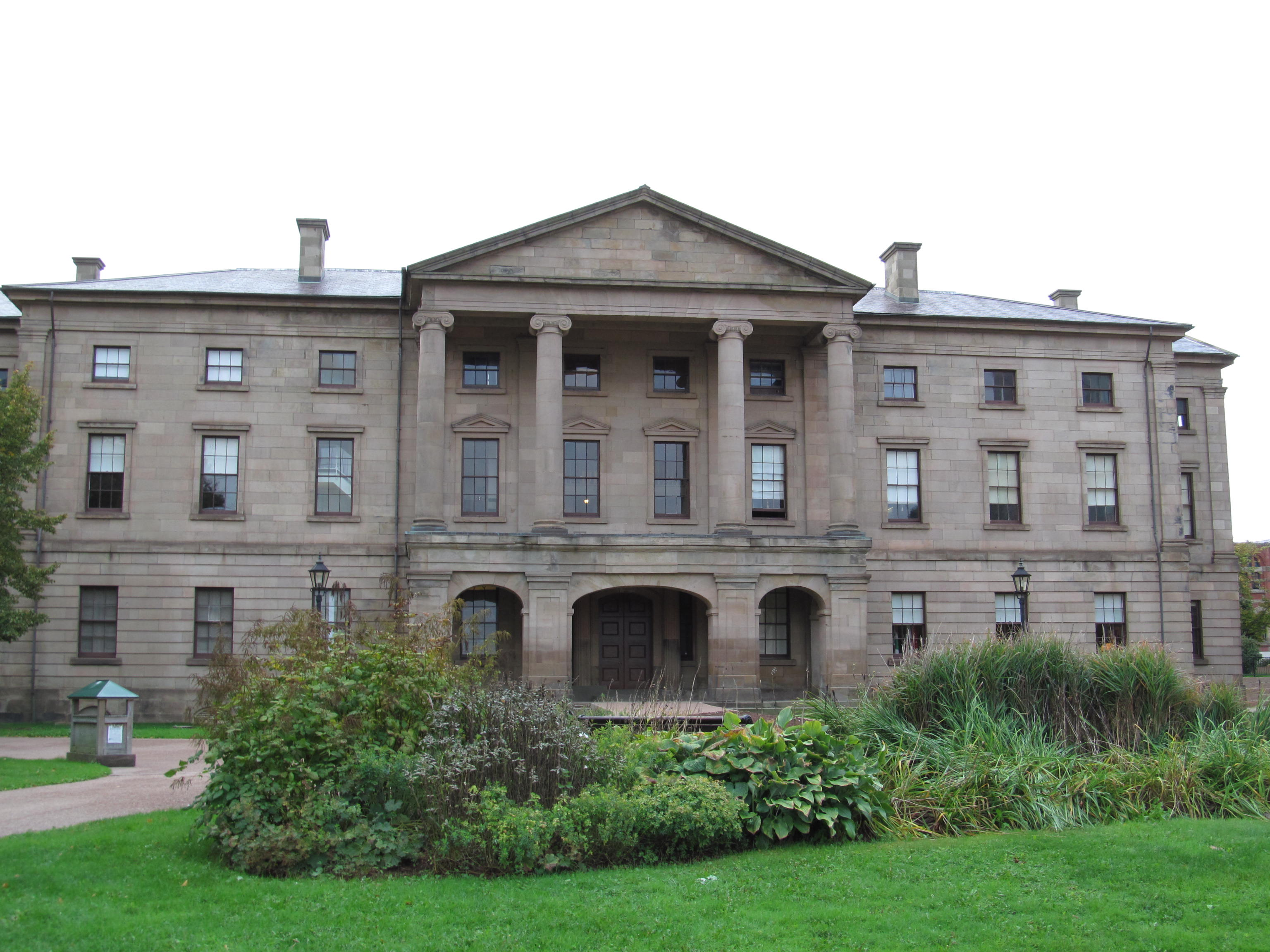 Province House in Charlottetown, Prince Edward Island.